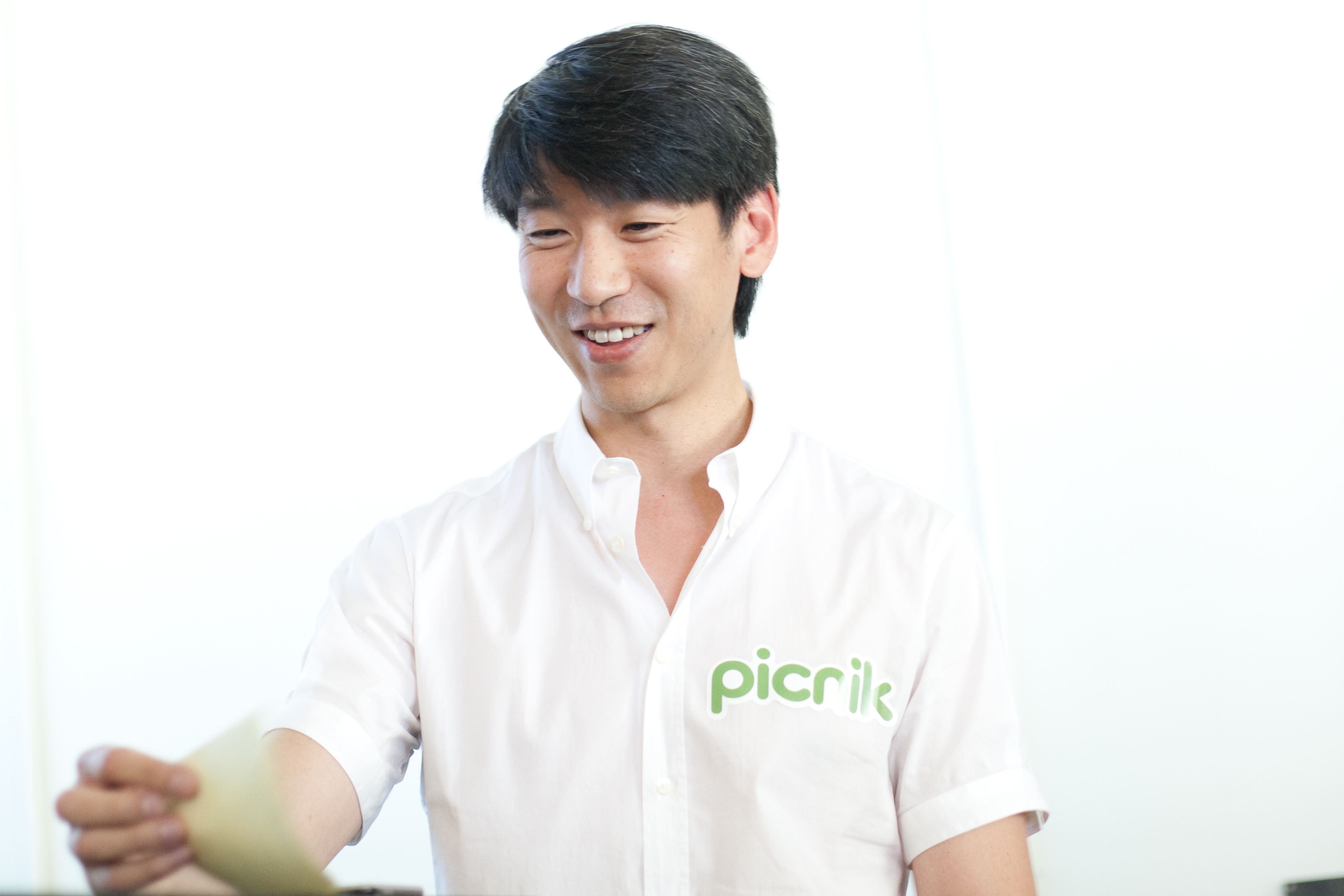 (CC) Randy Stewart, . Feel free to use this picture. Please credit as shown. If you are a person that I have taken a photo of, it's yours (but I'd still be curious as to where it is).